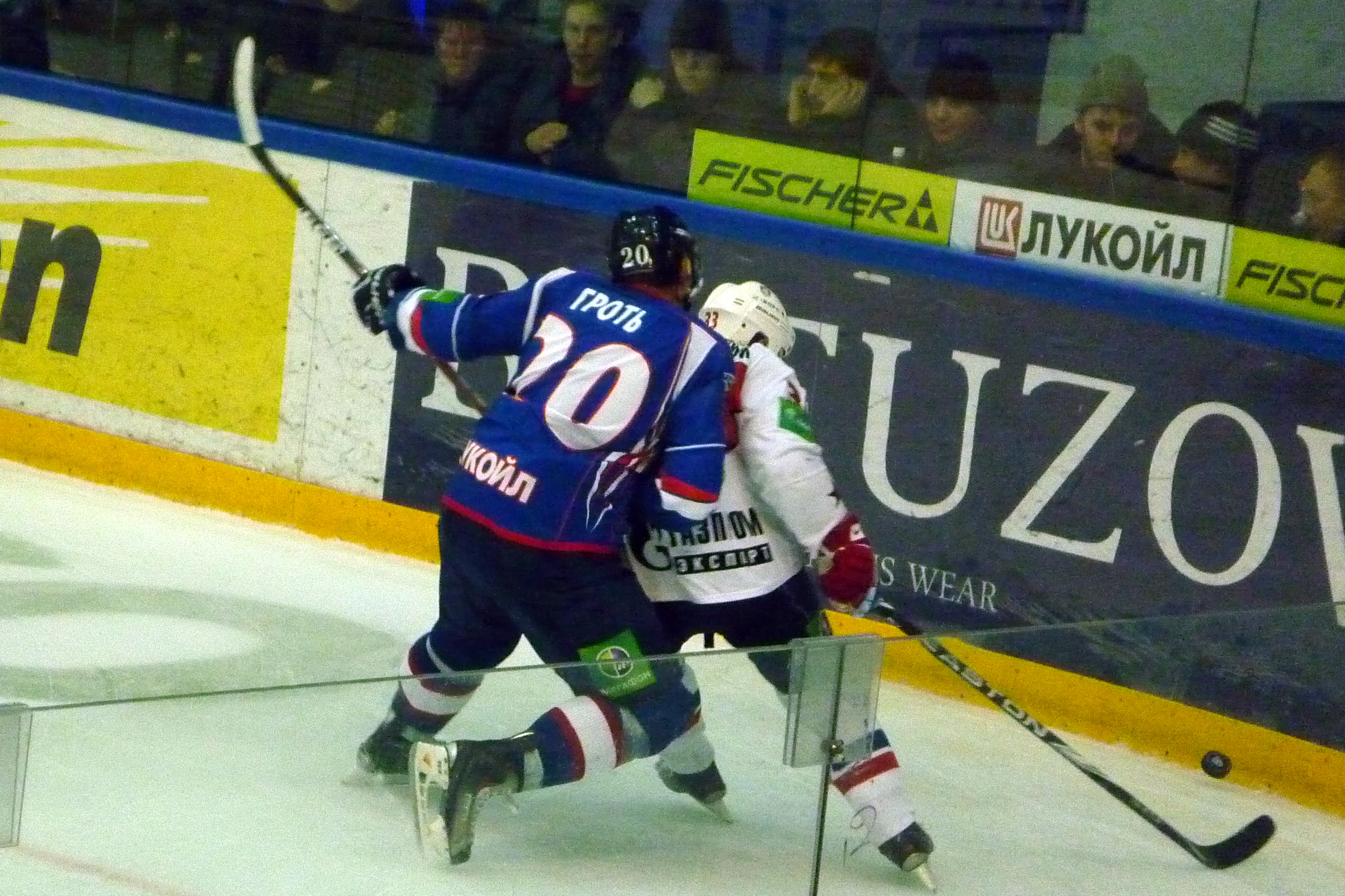 Denis Grot (blue) and Maxim Sushinsky (white)